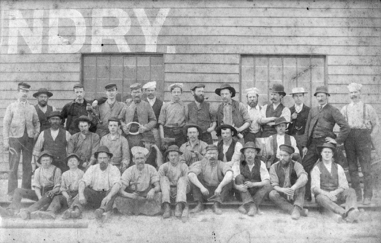 Cabinet photograph with a view of staff outside Jas J Niven and Company Limited's Foundry on Waghorne Street, Ahuriri. The group is arranged in three rows. Charles Edward Freeman, boiler maker, is thought to be among the men shown. Collection of Hawke's Bay Museums Trust, Ruawharo Tā-ū-rangi, 8567 gifted by Mrs Avis McCutcheon